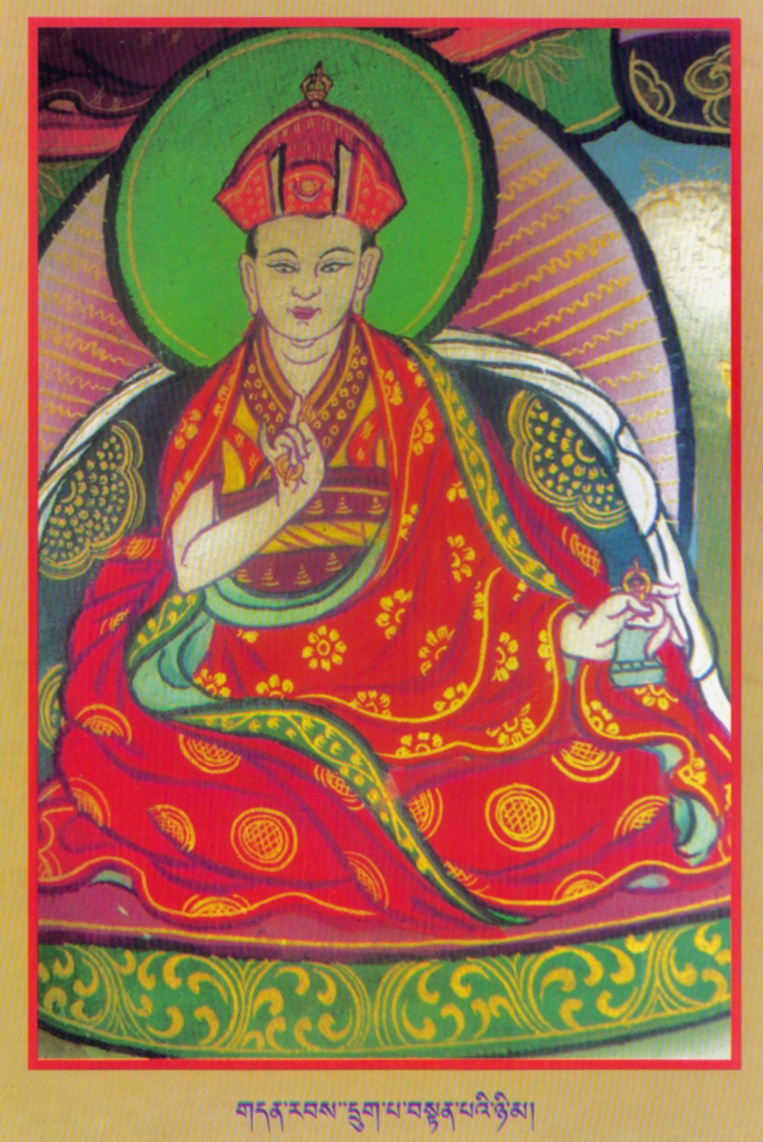 The Sixth Gangteng, Tenpai Nyima b.1838 - d.1874